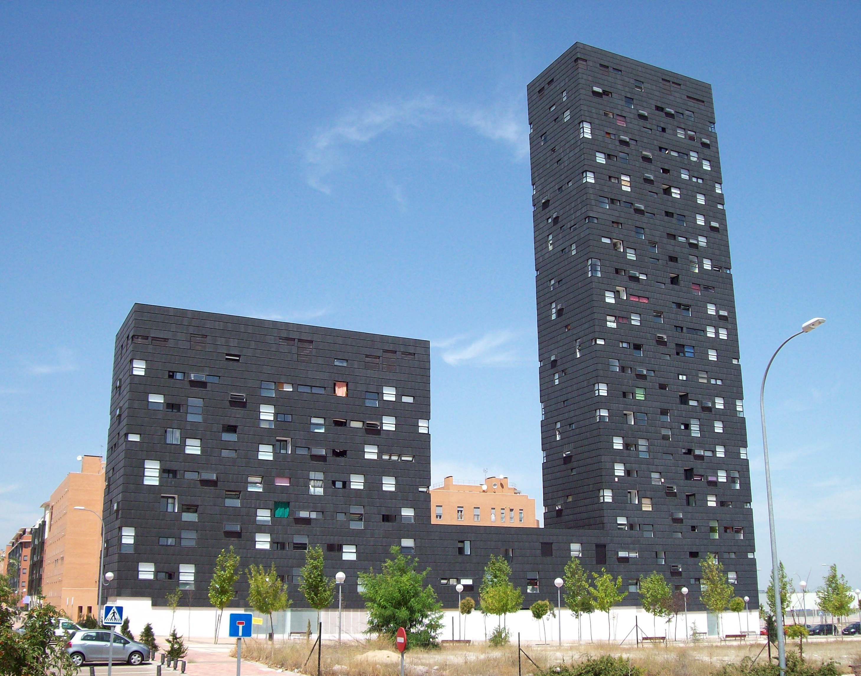 South-east façade of Vallecas 20 building in Madrid (Spain).